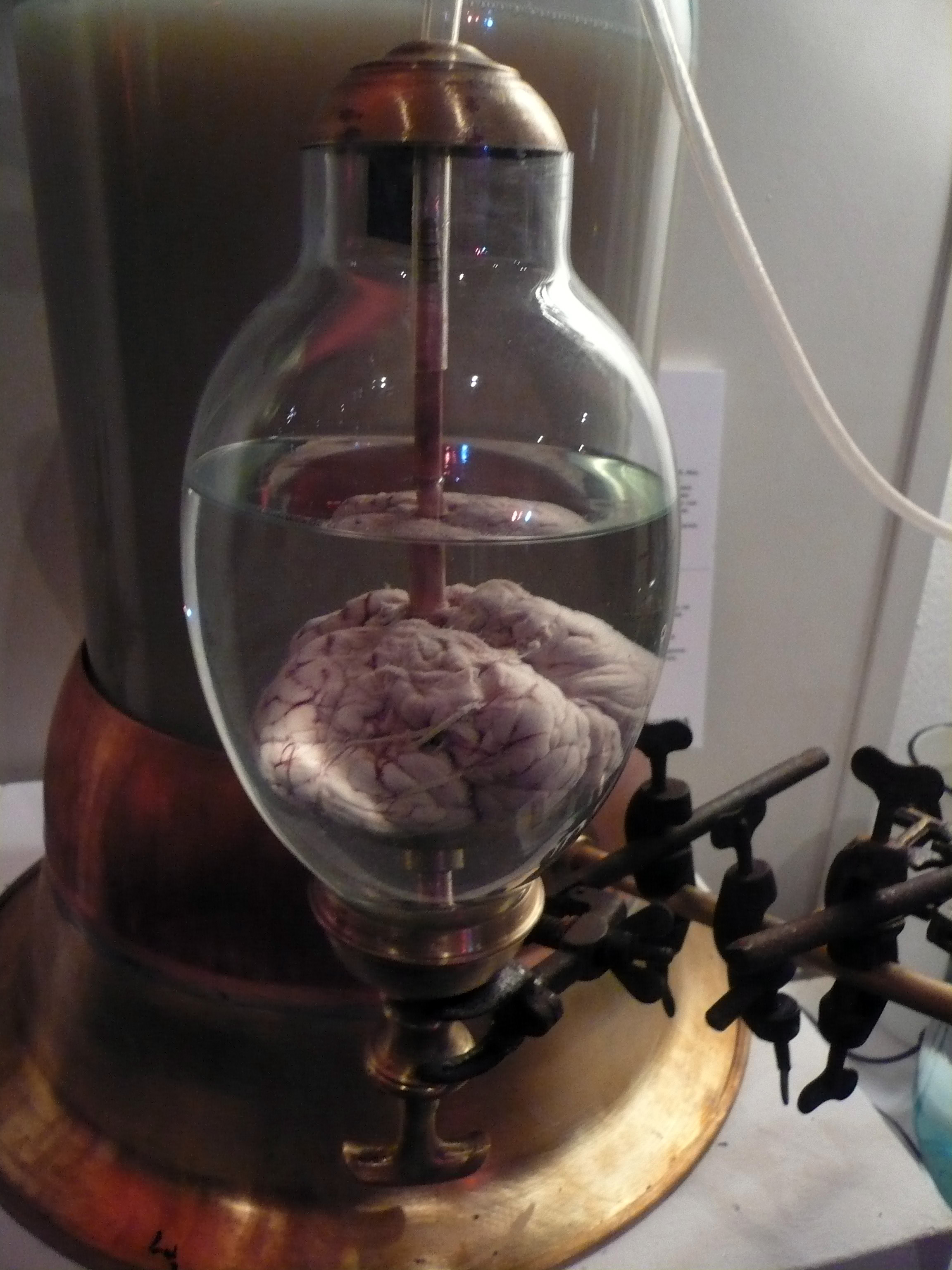 Cocktail robot at Roboexotica 2007 in Vienna, Austria